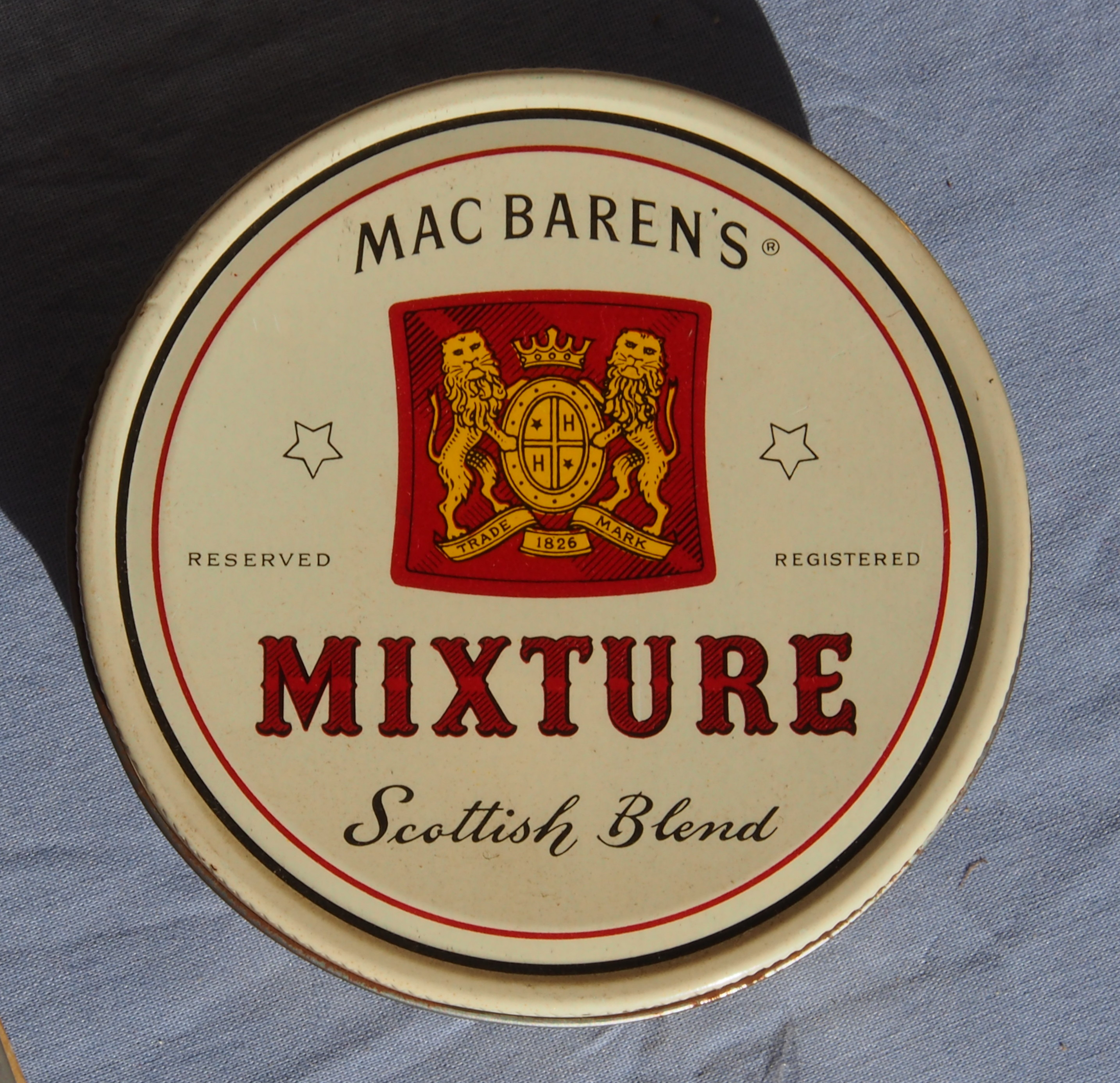 Max Baren's Mixture, Scottish Blend